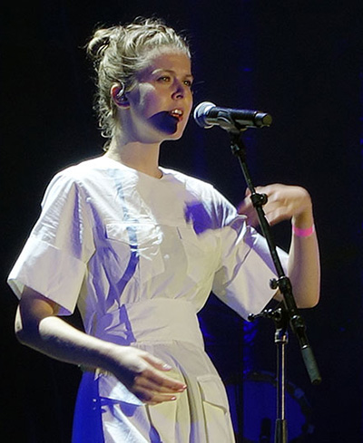 Jófríður Ákadóttir in Aarhus, Denmark 2015 performing with Samaris